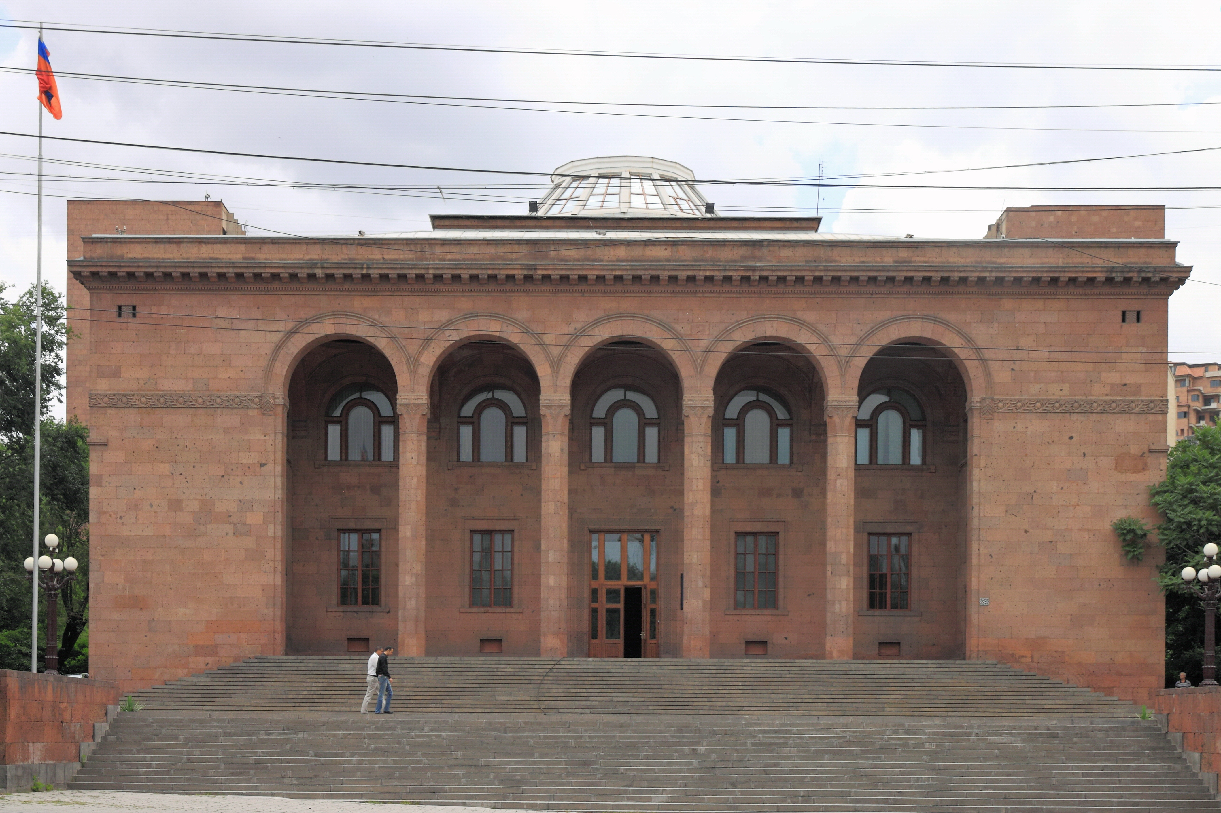 Armenian National Academy of Sciences. 24 Marshal Baghramyan Avenue. Yerevan, Armenia.